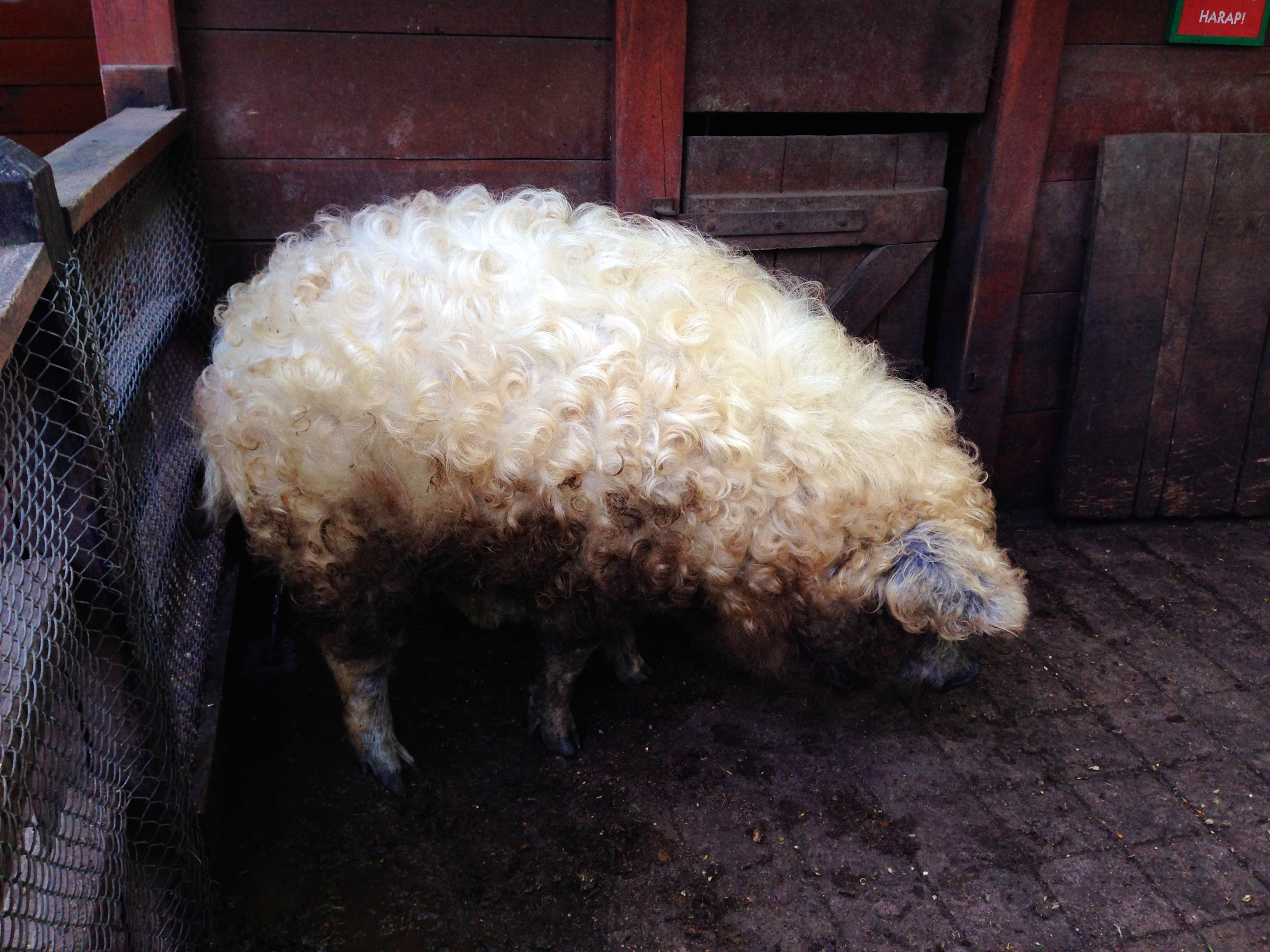 A mangalica (mangalitsa) curly-haired pig at Budapest Zoo in Hungary